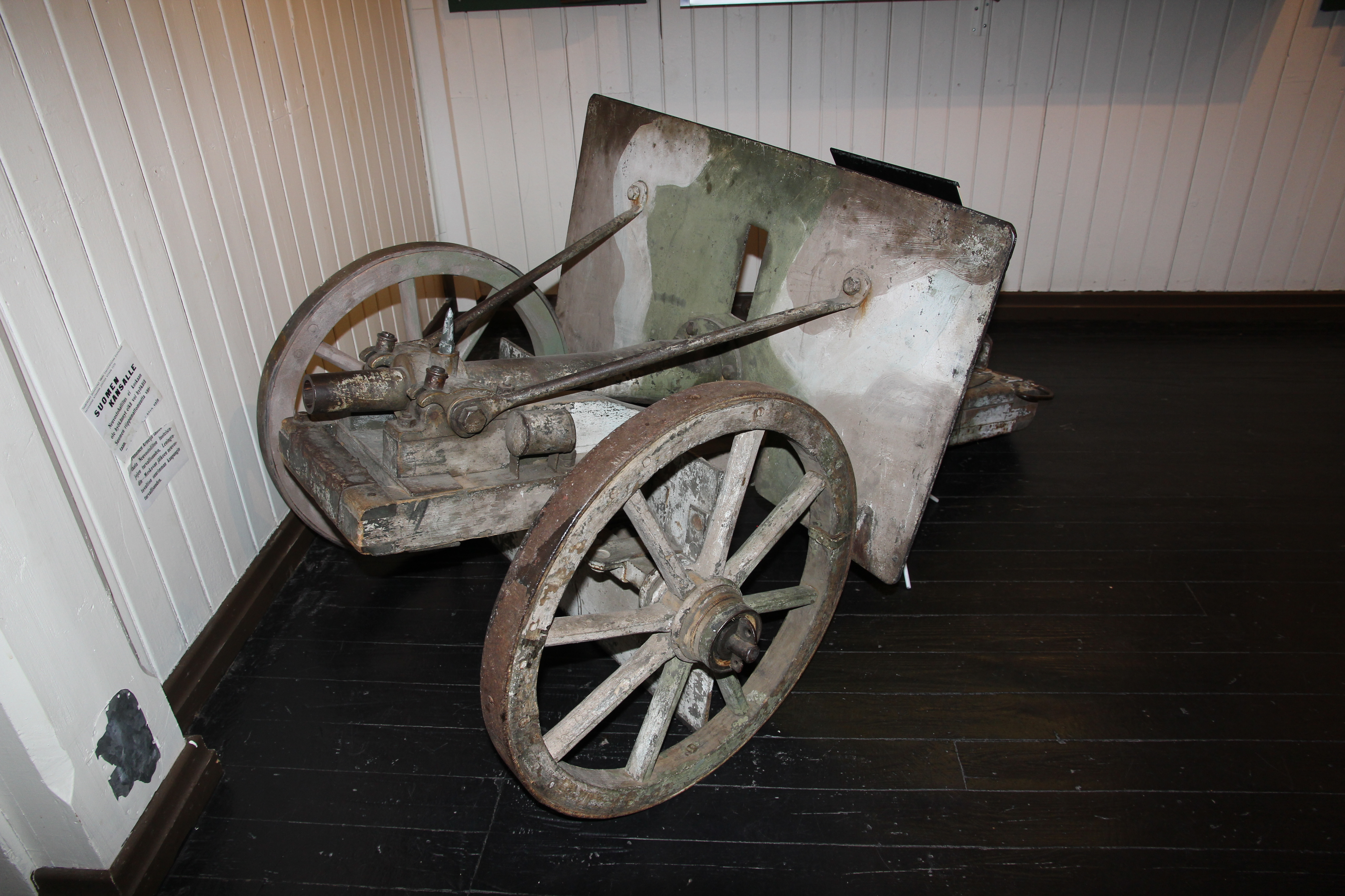 Imperial Russian 37 mm m/15 Rosenberg infantry gun. Photographed in Mikkeli Infantry museum.